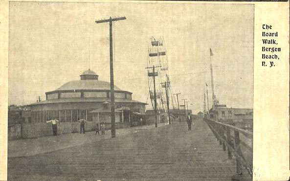 Postcard c. 1905 of the boardwalk at Bergen Beach amusement park, which was open from 1896 to 1918